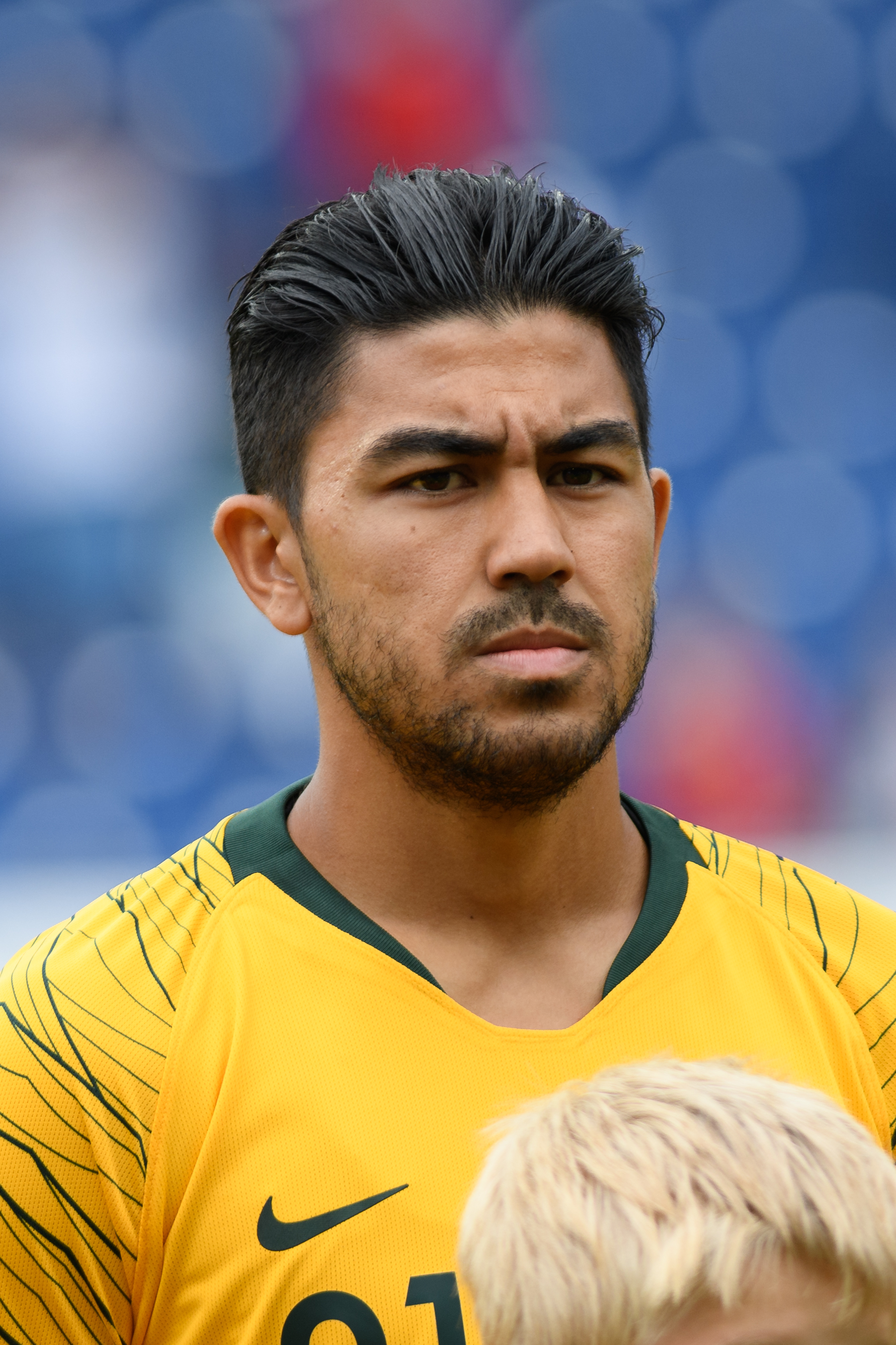 FIFA Friendly Match Czech Republic vs.Australia 2018/03/27. Picture shows Massimo Luongo (AUS).